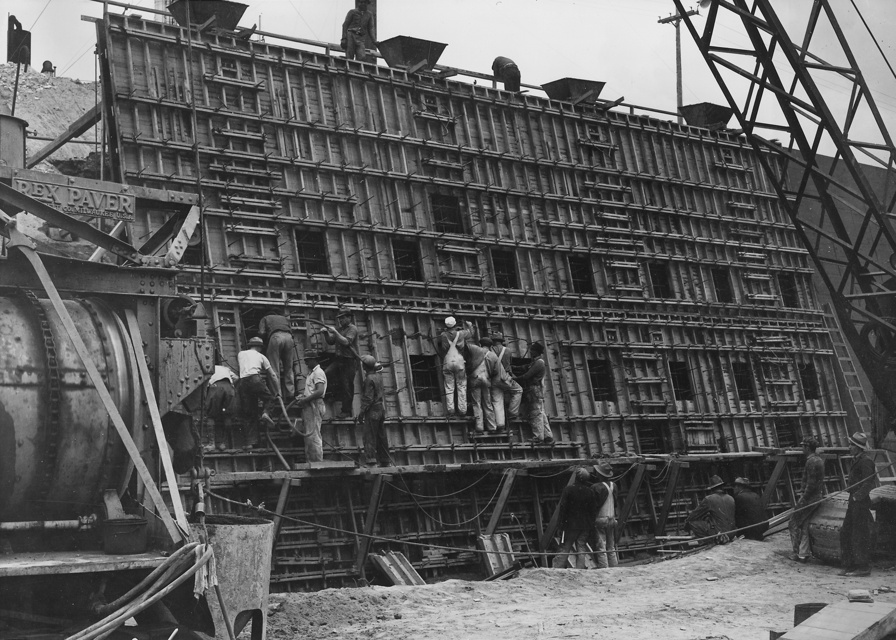 Los Angeles District - Los Angeles River Subproject No. 129 - E.R.A. and Regular Funds - Hired Labor - Taken April 29, 1938. Vol. XI. No. 12. This Photograph Shows the Placing of Concrete in a Section of the Counterforted Channel Wall on the Left Bank just Above 26th Street in the City of Los Angeles. The Men on the Form are Vibrating the Concrete Through Windows Which are Progressively Closed as the Level of the Concrete Rises in the Form